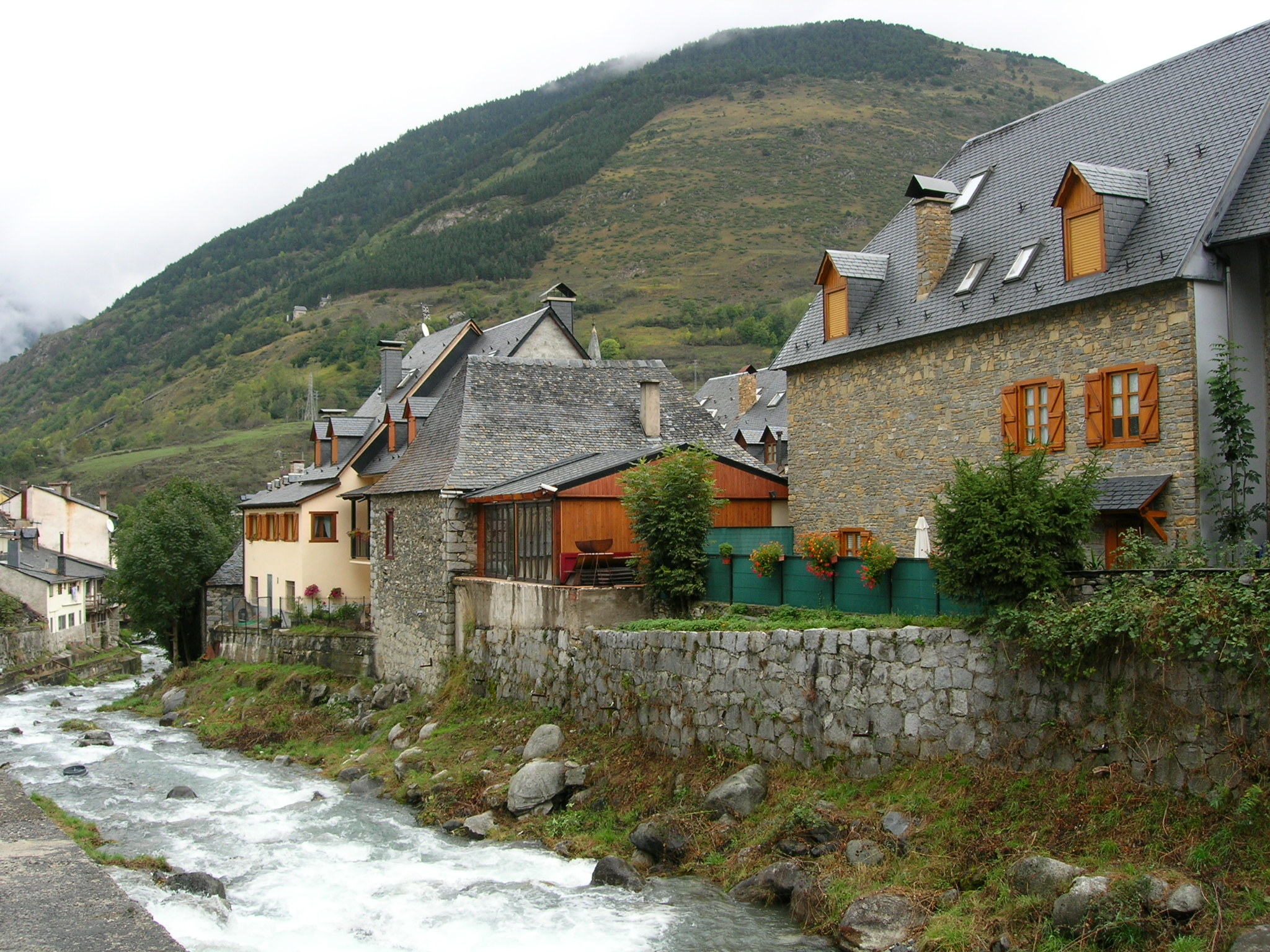 Nere river in Vielha (Vielha e Mijaran, Val d'Aran, Catalonia, Spain).